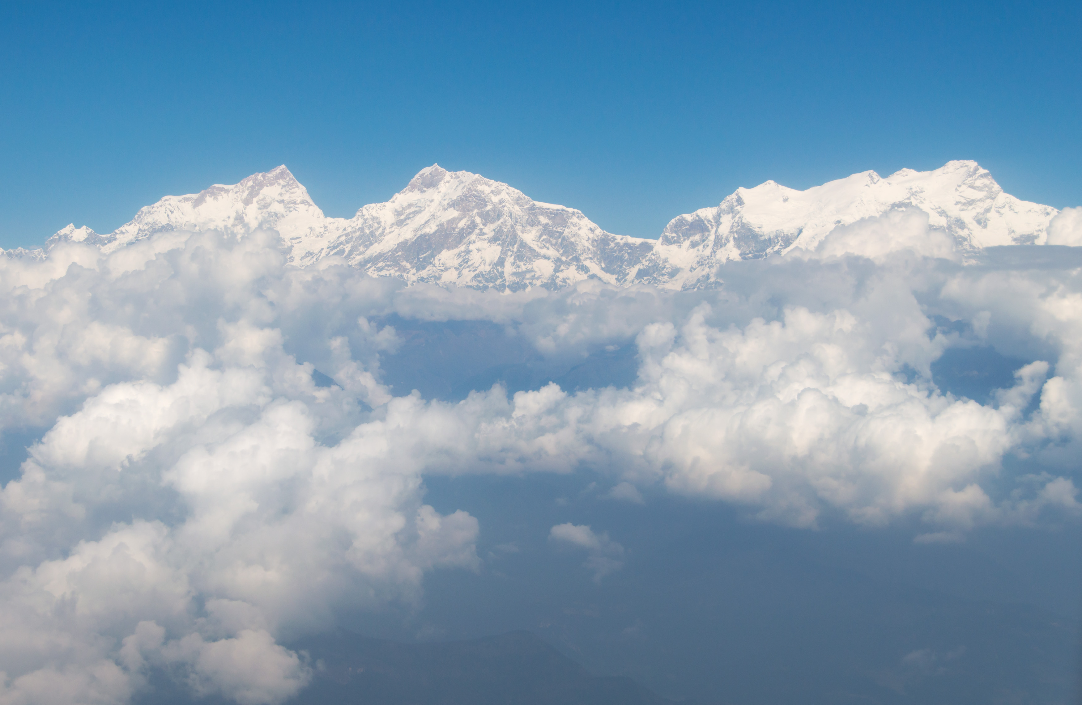 Mansiri Himal (Manaslu Himal) massif, view from aircraft. Peaks left to right: Manaslu, Ngadi Chuli, Himalchuli